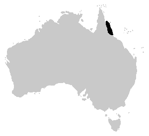 Distribution of the Orange-thighed Frog (Litoria xantheroma).